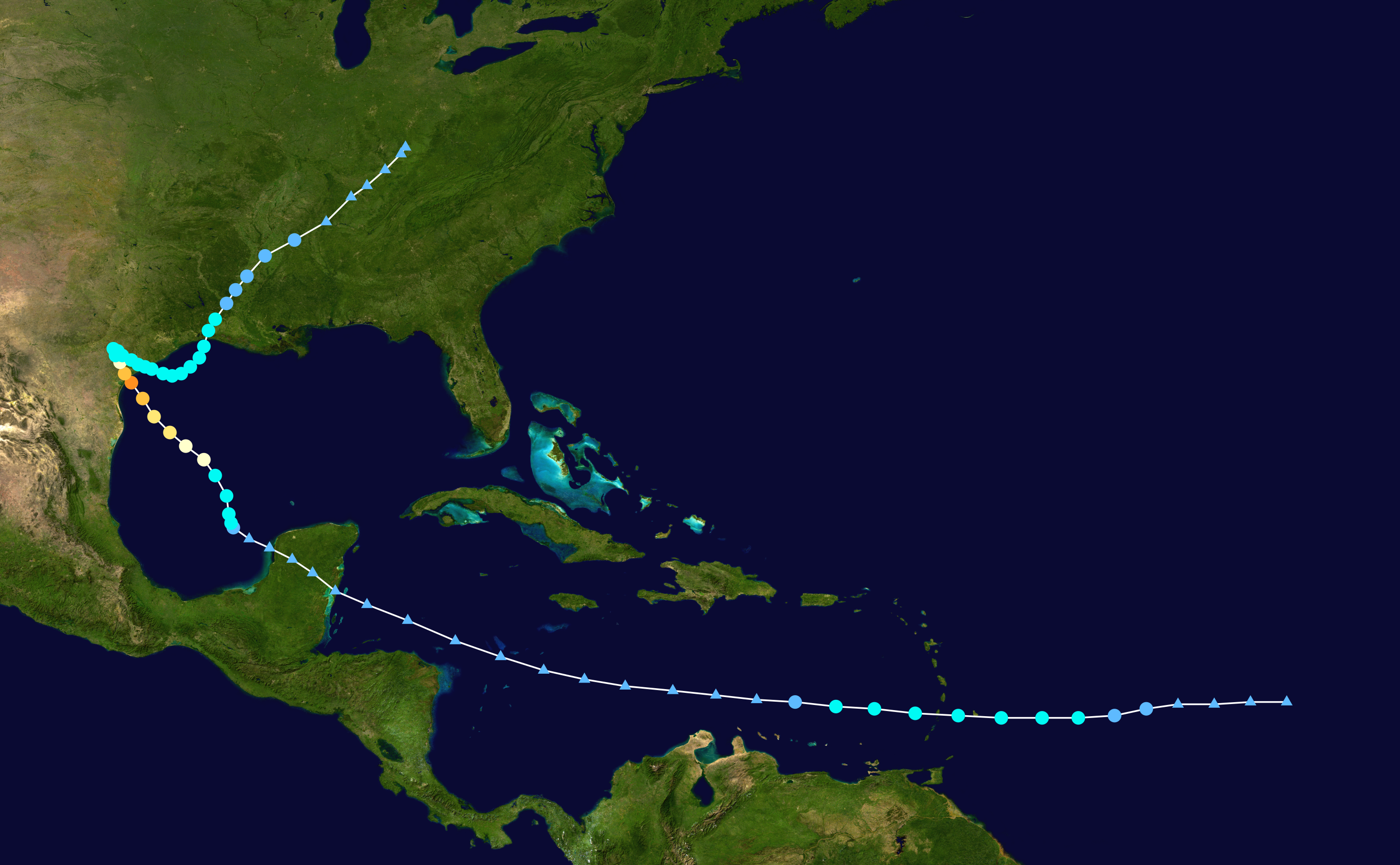 Track map of Hurricane Harvey of the 2017 Atlantic hurricane season. The points show the location of the storm at 6-hour intervals. The colour represents the storm's maximum sustained wind speeds as classified in the Saffir–Simpson scale (see below), and the shape of the data points represent the nature of the storm, according to the legend below. Saffir–Simpson scale Tropical depression≤38 mph≤62 km/h Category 3111–129 mph178–208 km/h Tropical storm39–73 mph63–118 km/h Category 4130–156 mph209–251 km/h Category 174–95 mph119–153 km/h Category 5≥157 mph≥252 km/h Category 296–110 mph154–177 km/h Unknown Storm type Tropical cyclone Subtropical cyclone Extratropical cyclone / Remnant low / Tropical disturbance / Monsoon depression